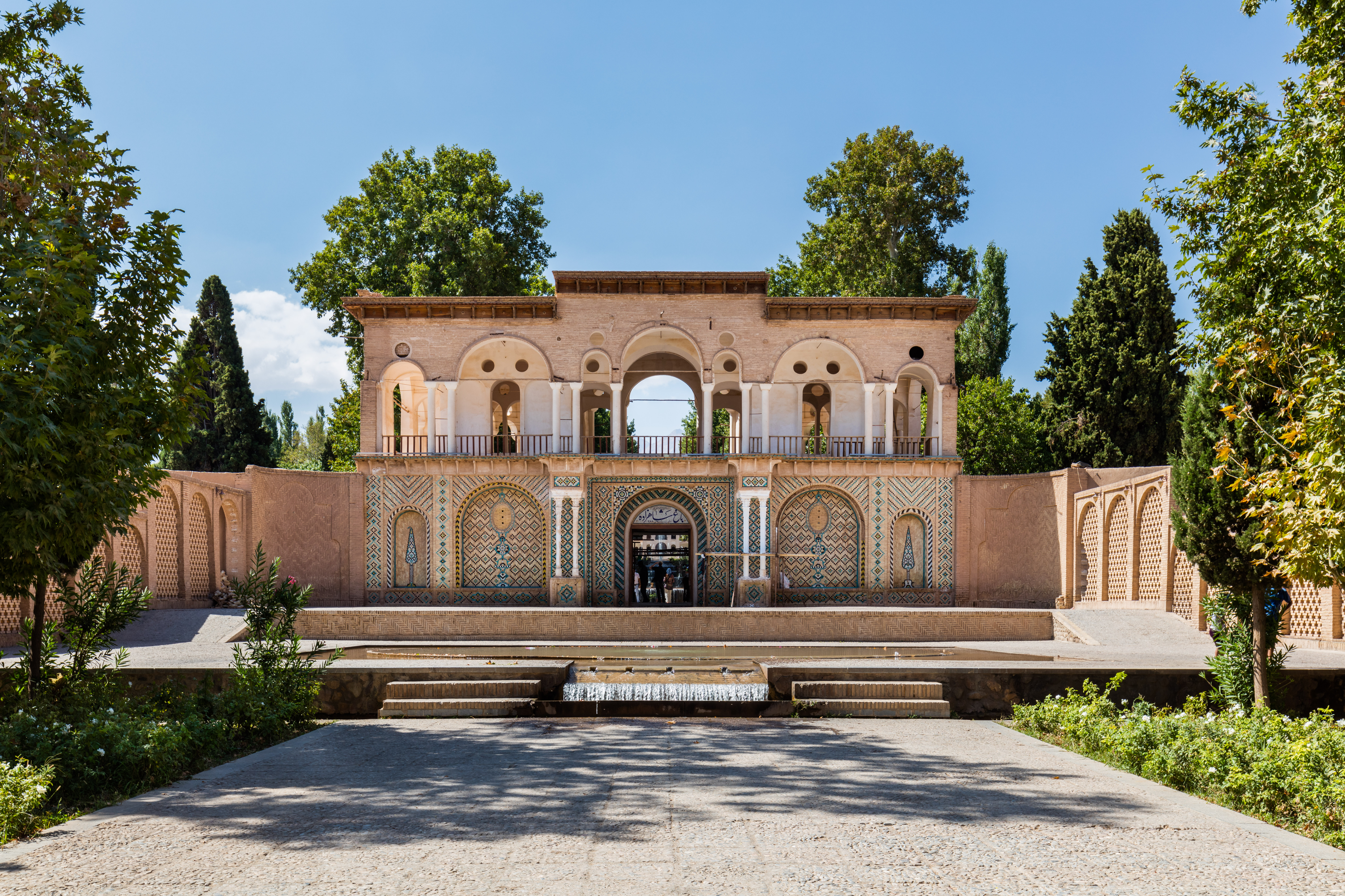 Shazdeh Garden, Mahan, Iran